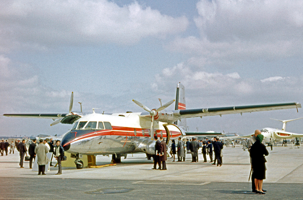 Nord 262 prototype F-WKVR of Nord Aviation at the 1963 Paris Air Show